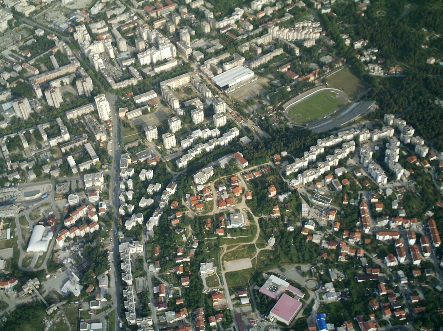 Mostar from air